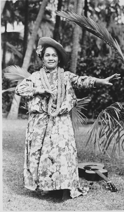 Anonymous photo of Hilo Hattie, 1941